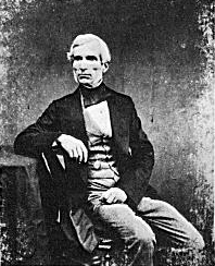 Early French photographer Antoine Claudet (1797-1867).